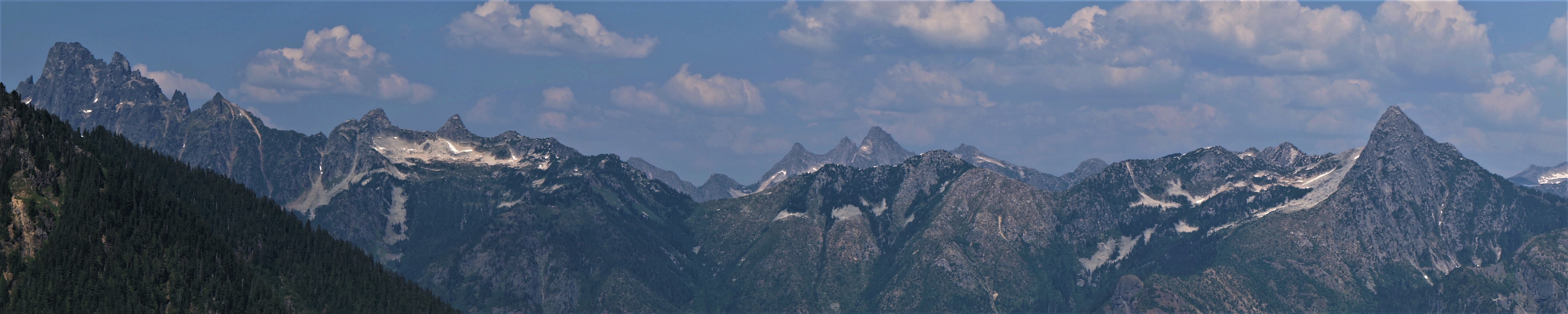 Views from the hike to High Pass featuring Slesse Mountain left, Mt. Rexford, Pocket Peak right.